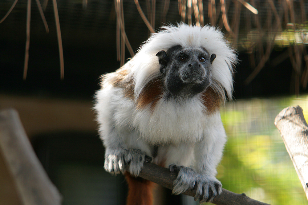 i got it from my computer